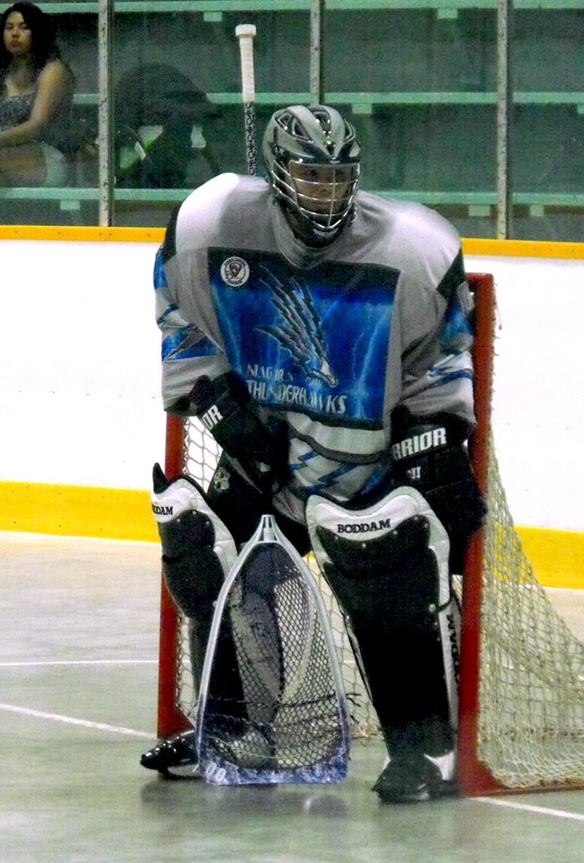 These images of Ontario Junior B Lacrosse Action action during the 2014 season are taken by Devan Mighton.